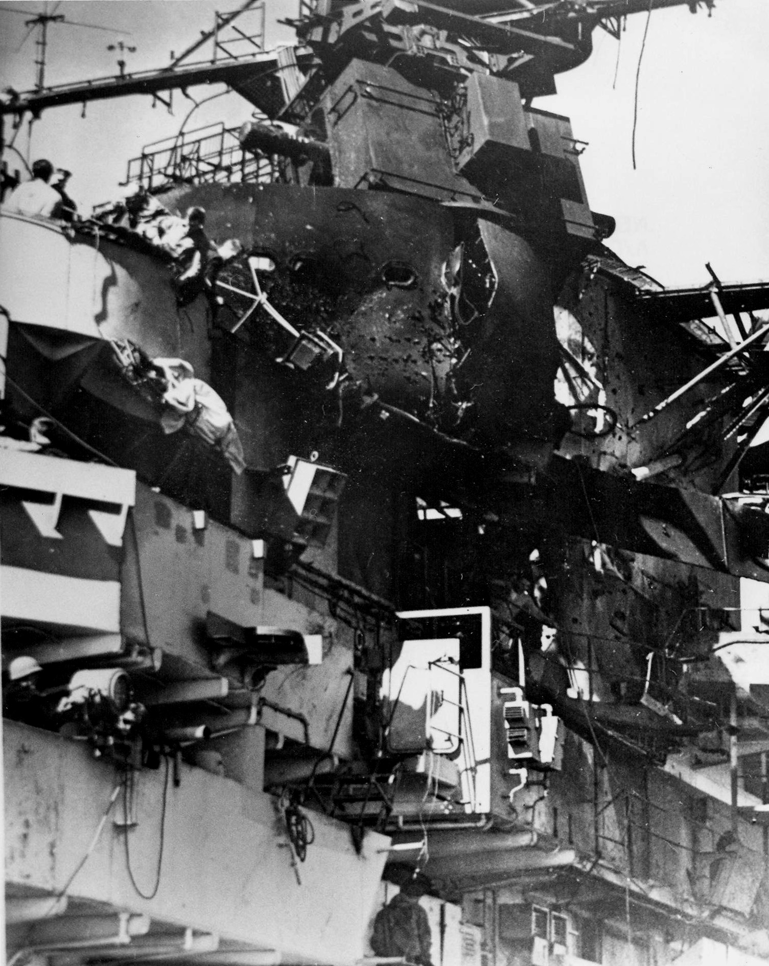 View of damage to the island onboard the U.S. Navy aircraft carrier USS Ticonderoga (CV-14) after she was hit by two kamikaze planes while steaming off Formosa (now Taiwan) on 21 January 1945.